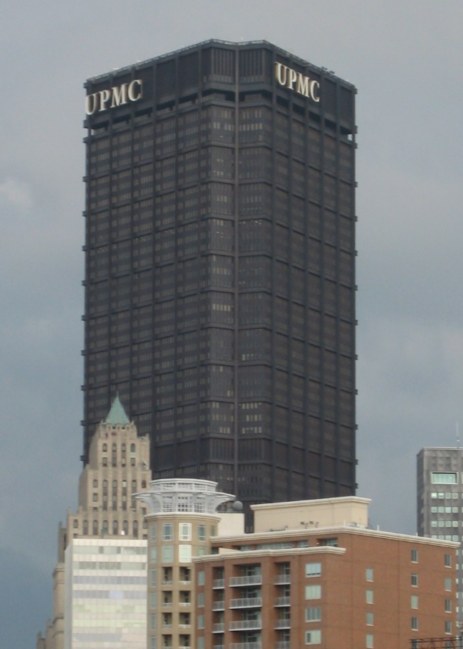 The U.S. Steel Tower, located in Pittsburgh, Pennsylvania, USA, with the new corporate logo of the University of Pittsburgh Medical Center.